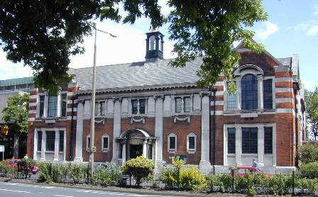 Central Museum, Southend, on Victoria Avenue. This Museum is one of six branches operated by Southend Museums Service in and around the town of Southend-on-Sea. It is a two minute walk from Southend Victoria train station. Until the 1970s, it was the town's central library.